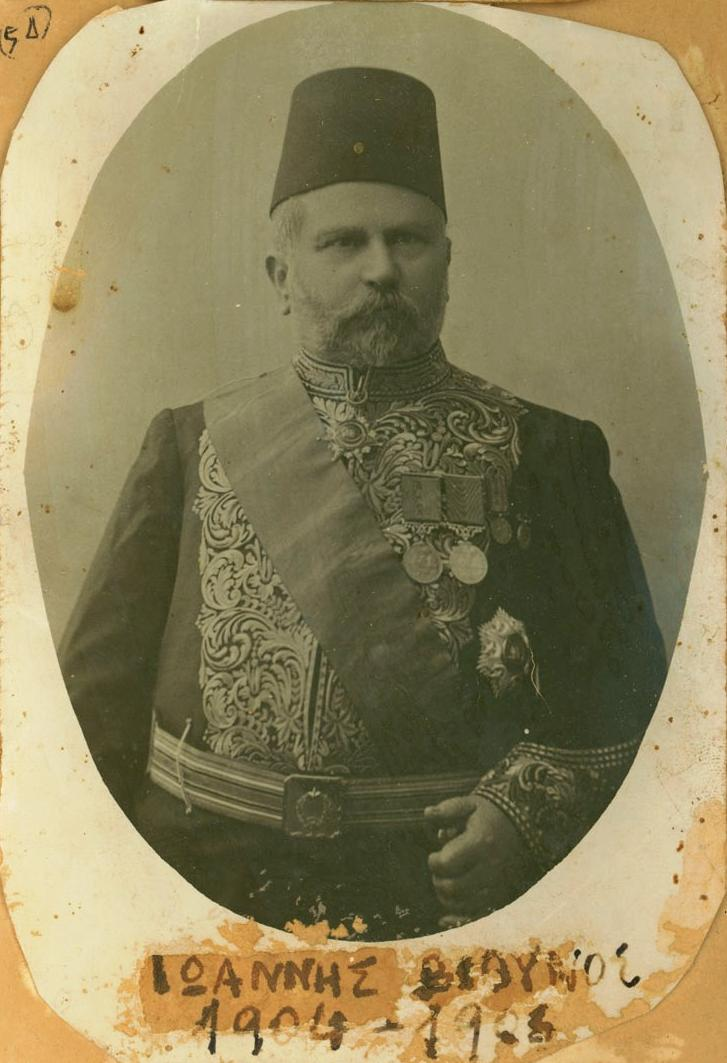 Portrait photo of Stephanos Mousouros, Prince of Samos (1904-1906)